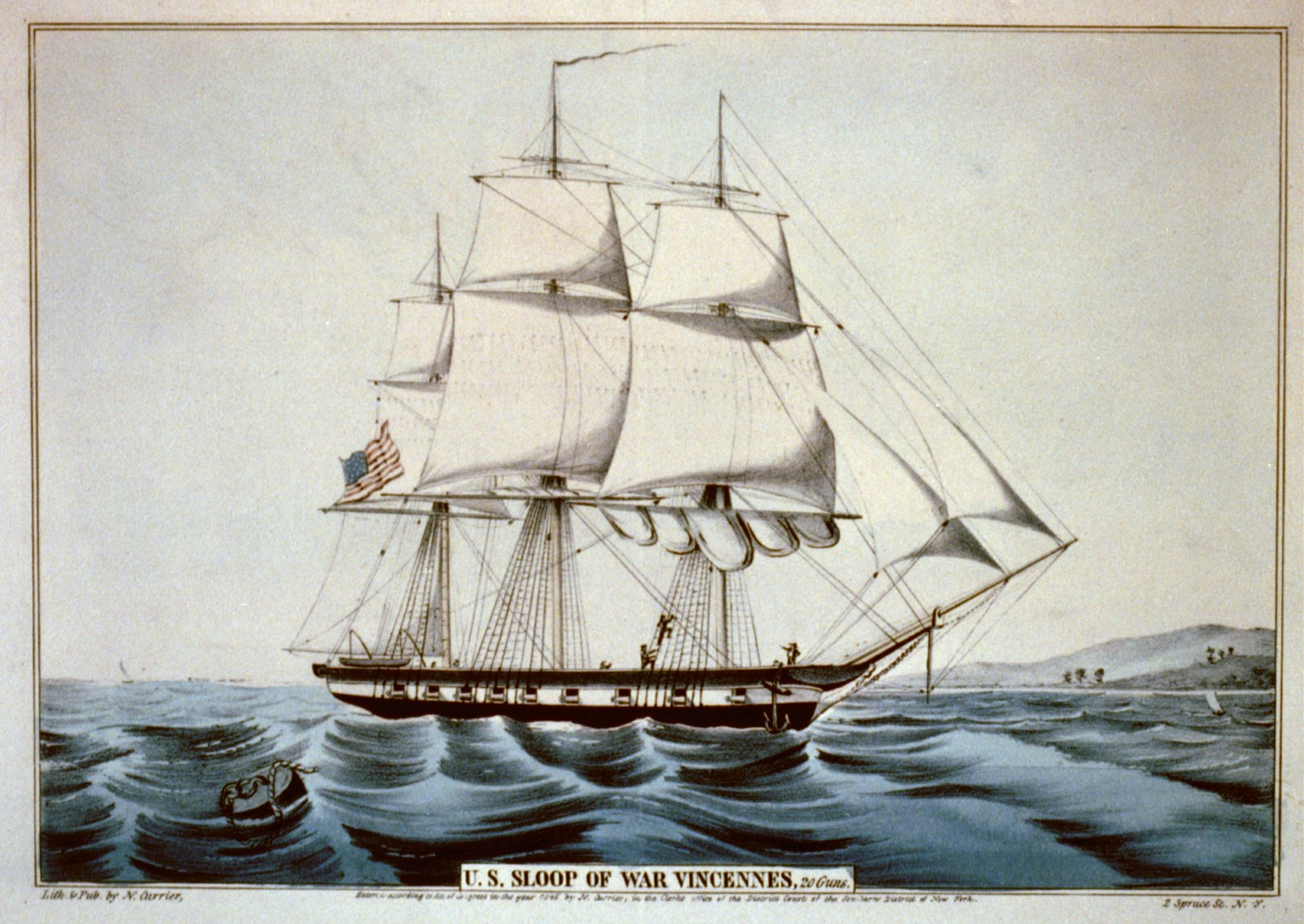 U.S. sloop of war Vincennes: 20 guns. New York: Published by N. Currier. Currier & Ives. A size. Lithograph print, hand-colored. Currier & Ives : a catalogue raisonné / compiled by Gale Research. Detroit, MI : Gale Research, c1983, no. 6855